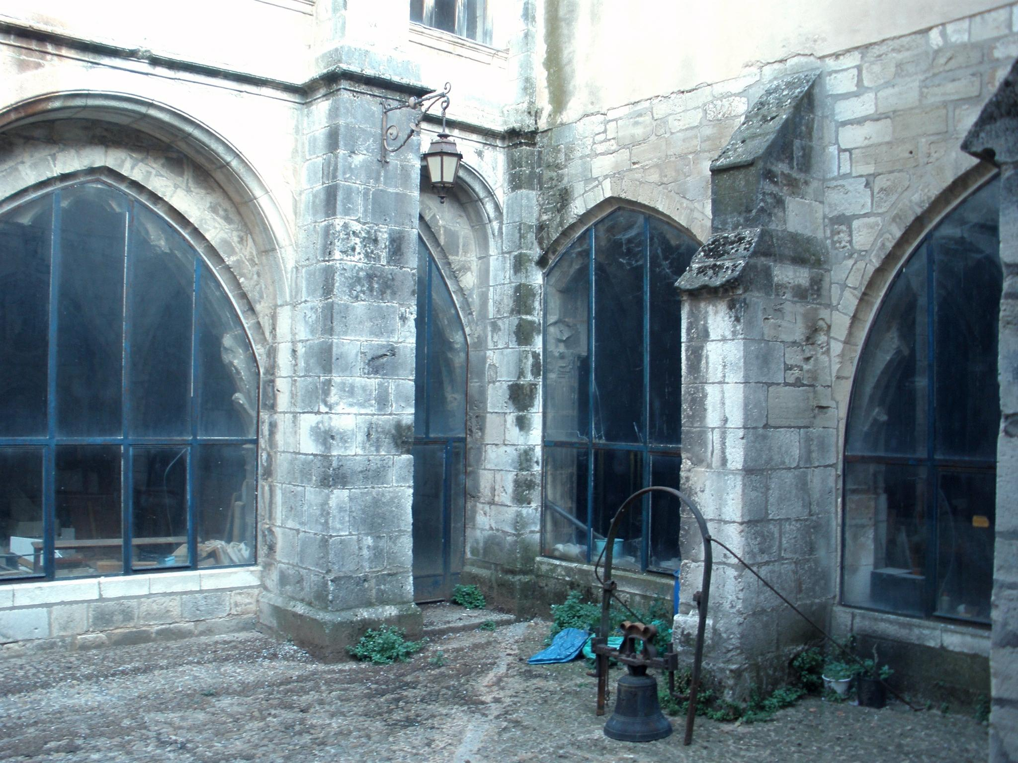 Claustro de la iglesia de San Estaban (Museo del Retablo), en Burgos (Castilla y León, España)